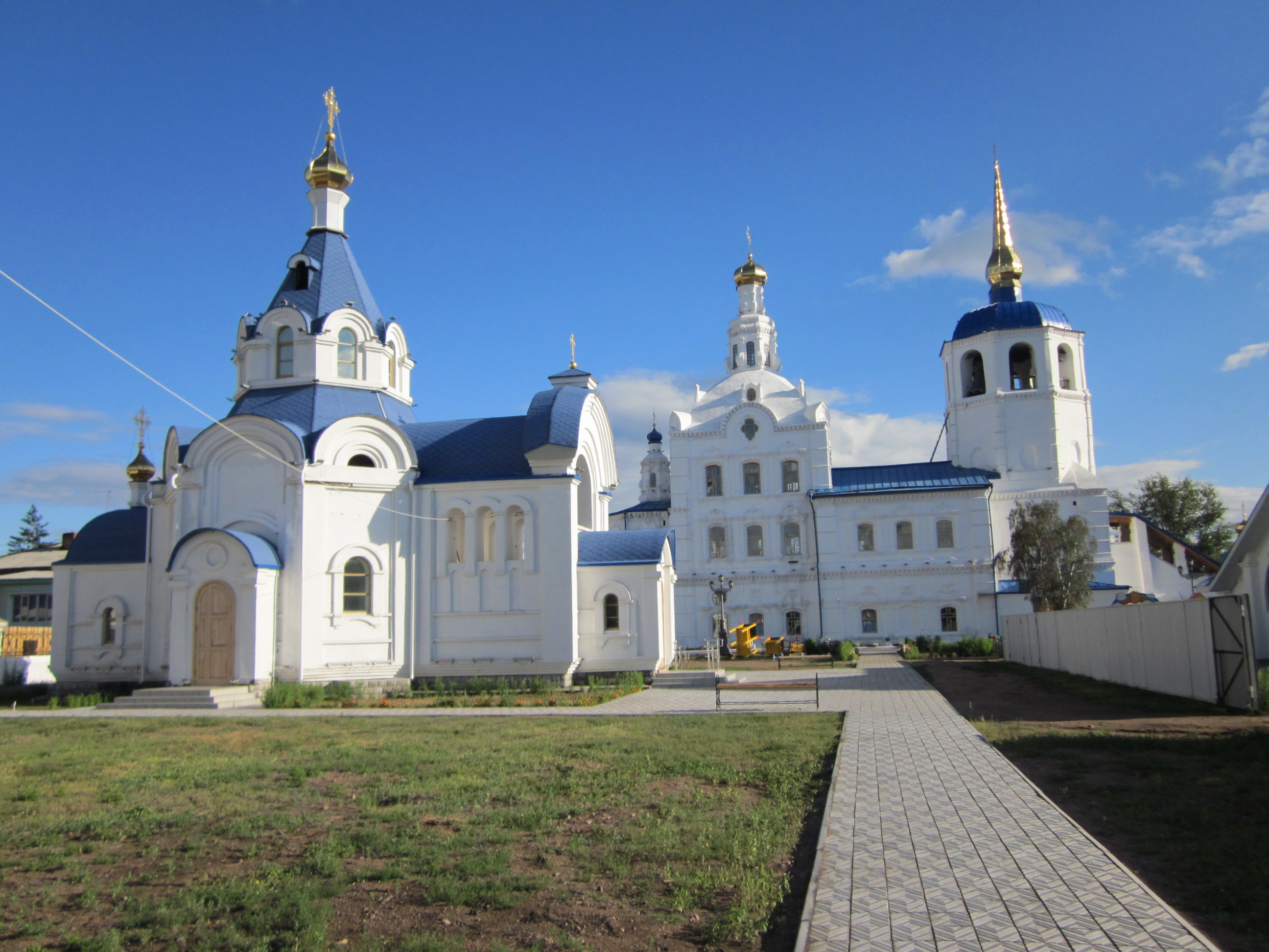 Orthodox cathedral in Ulan-Ude, Russia